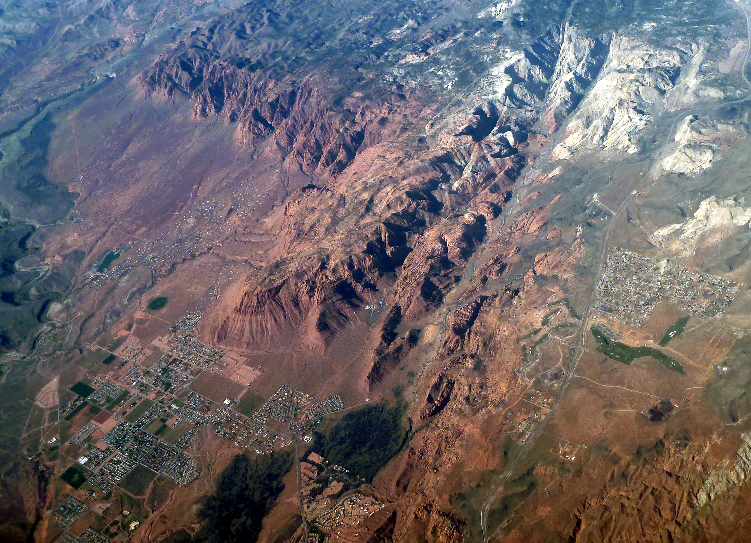 Aerial photograph of Ivins, Utah, USA.